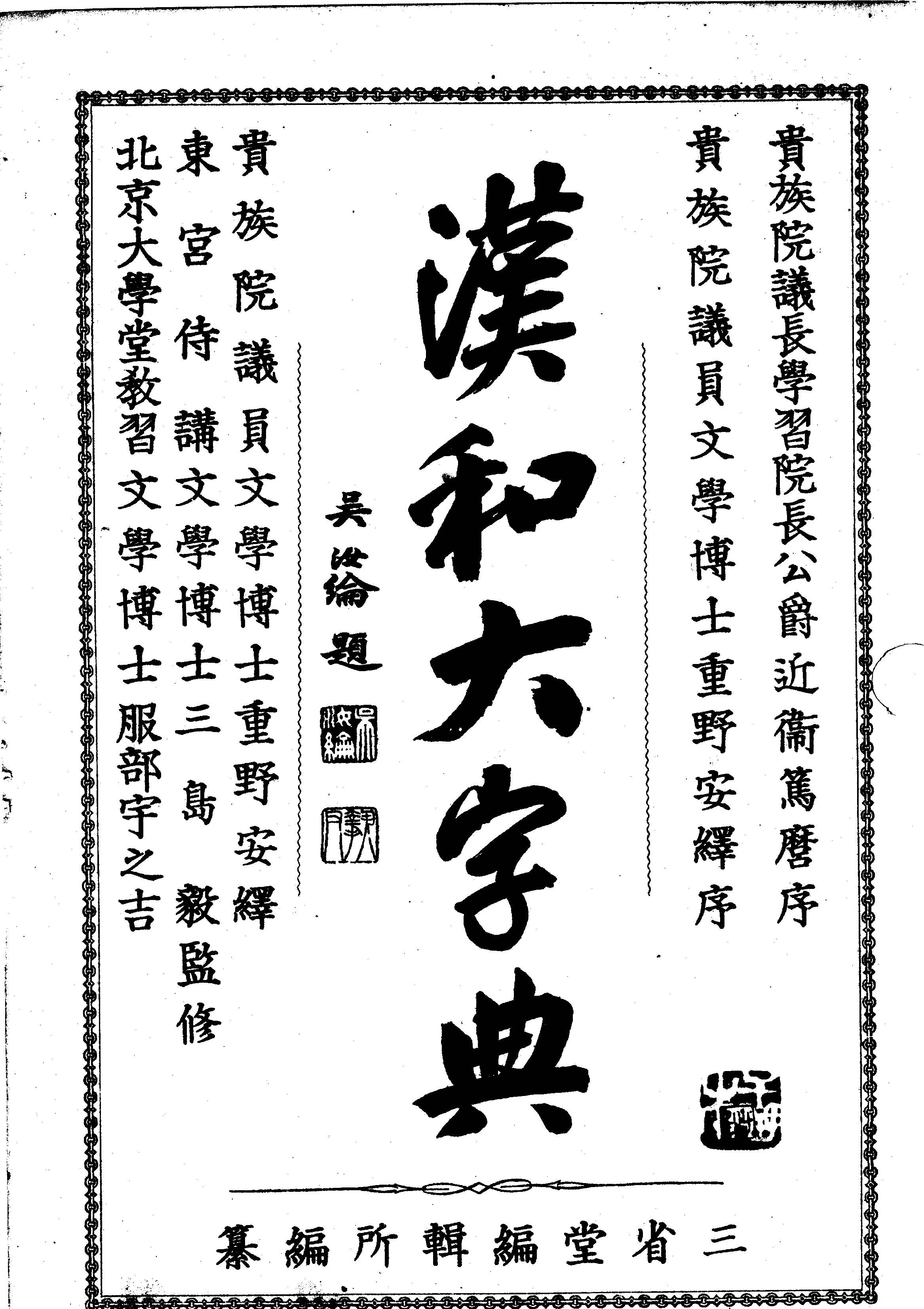 Sanseido Kanwa Daijiten as a kanji dictionary published in 1903 in Japan.